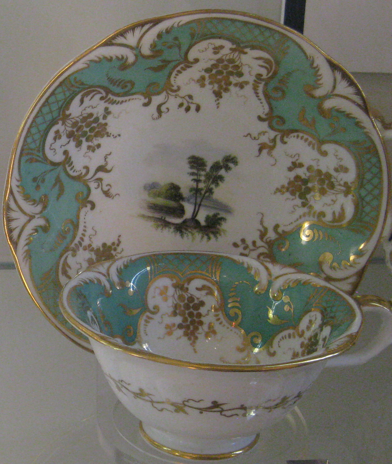 Tea cup with triple spur handle and matching saucer from the Rockingham pottery, Swinton, 1830 to 1842. On display at Clifton Park Museum.